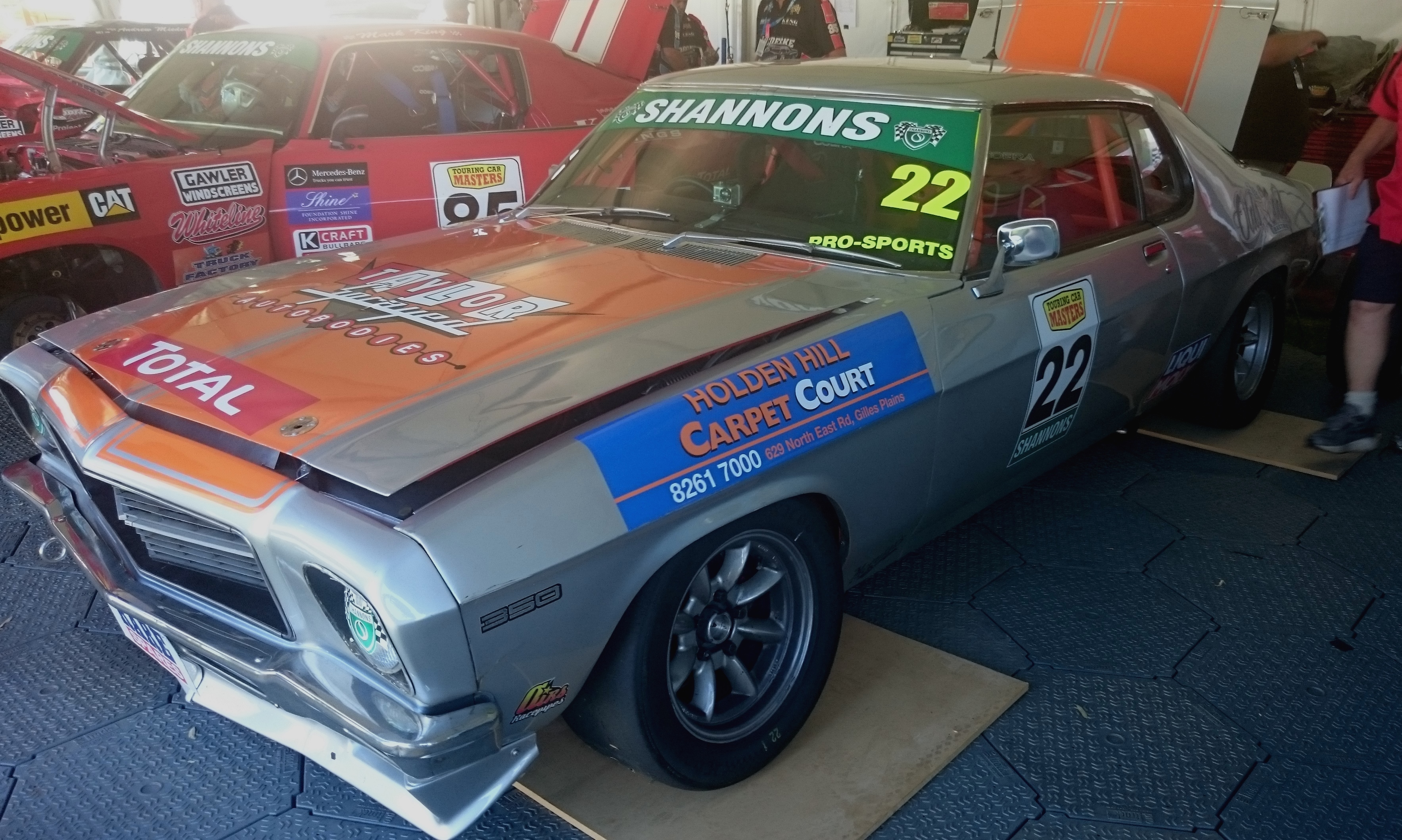 The Holden Monaro GTS350 (HQ) of Nigel Benson, Round 1, 2016 Touring Car Masters, Adelaide Parklands Circuit.